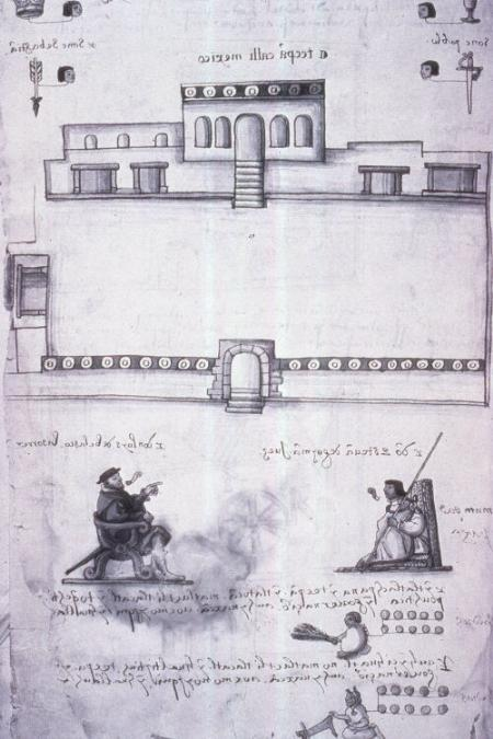 Codex Osuna.